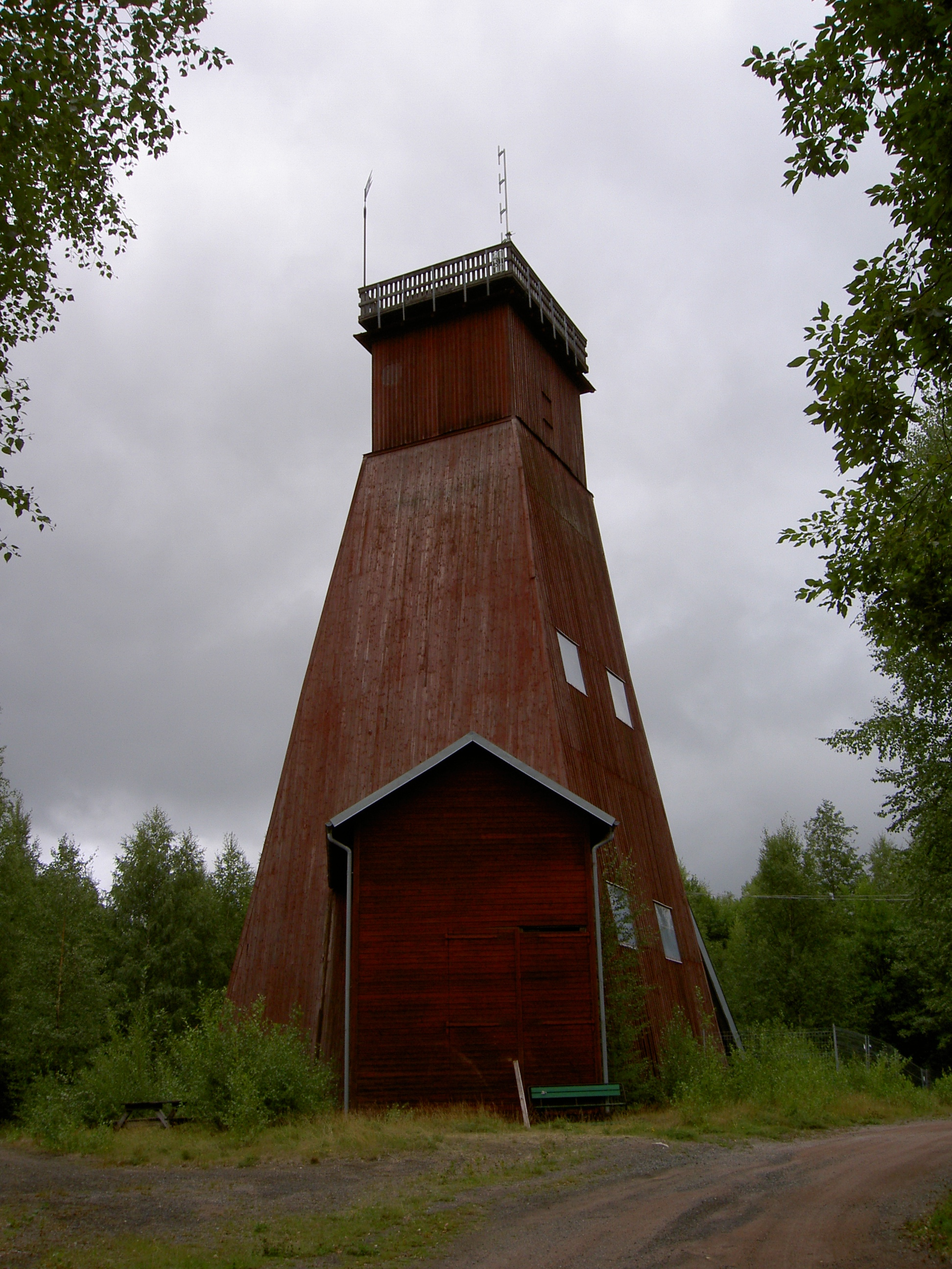 Mine shaft of the mine of Intrånget, Hedemora municipality, Sweden